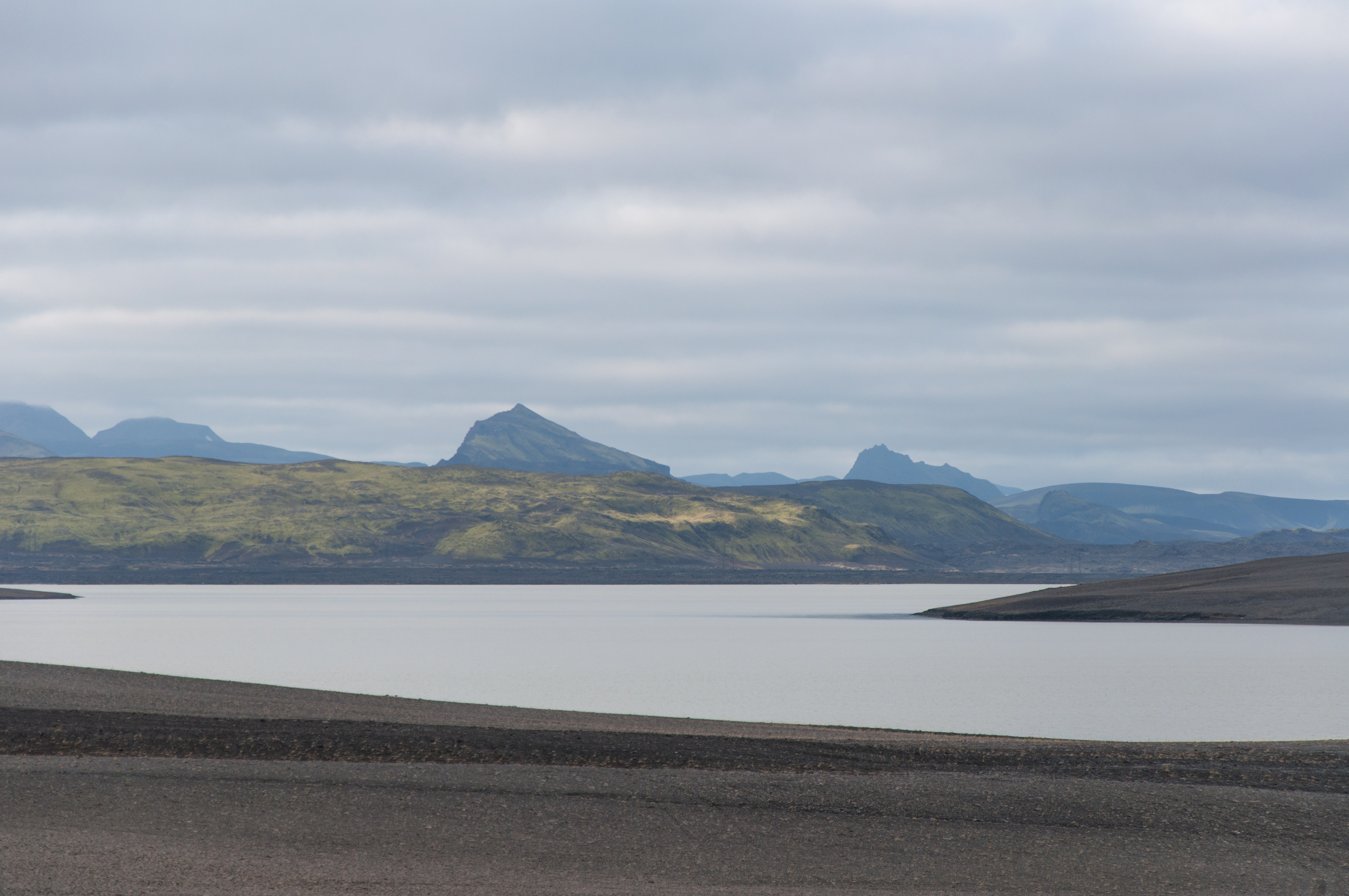 Iceland, impressions along road F208 to Landmannalaugar